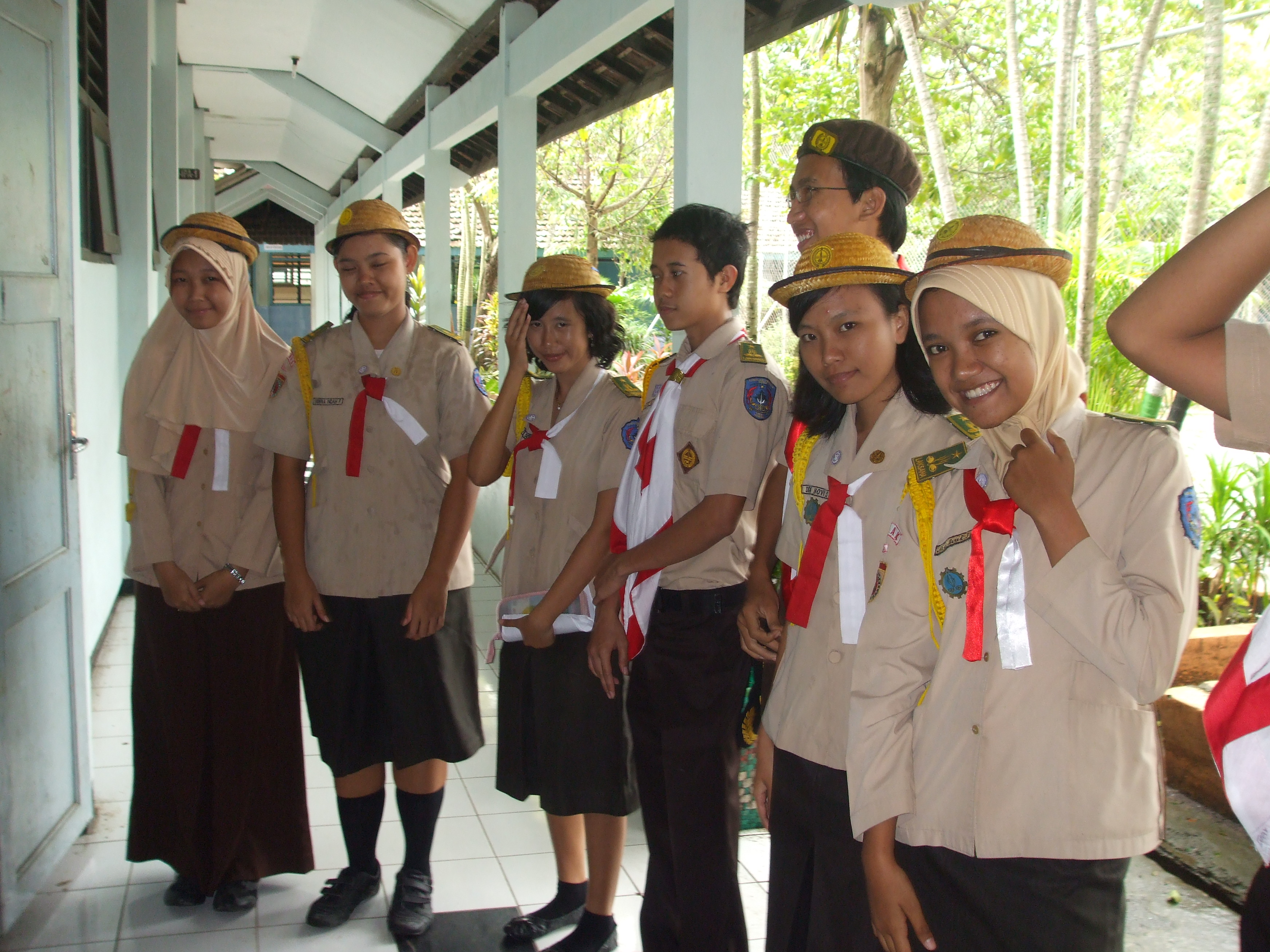 this is picture of scout